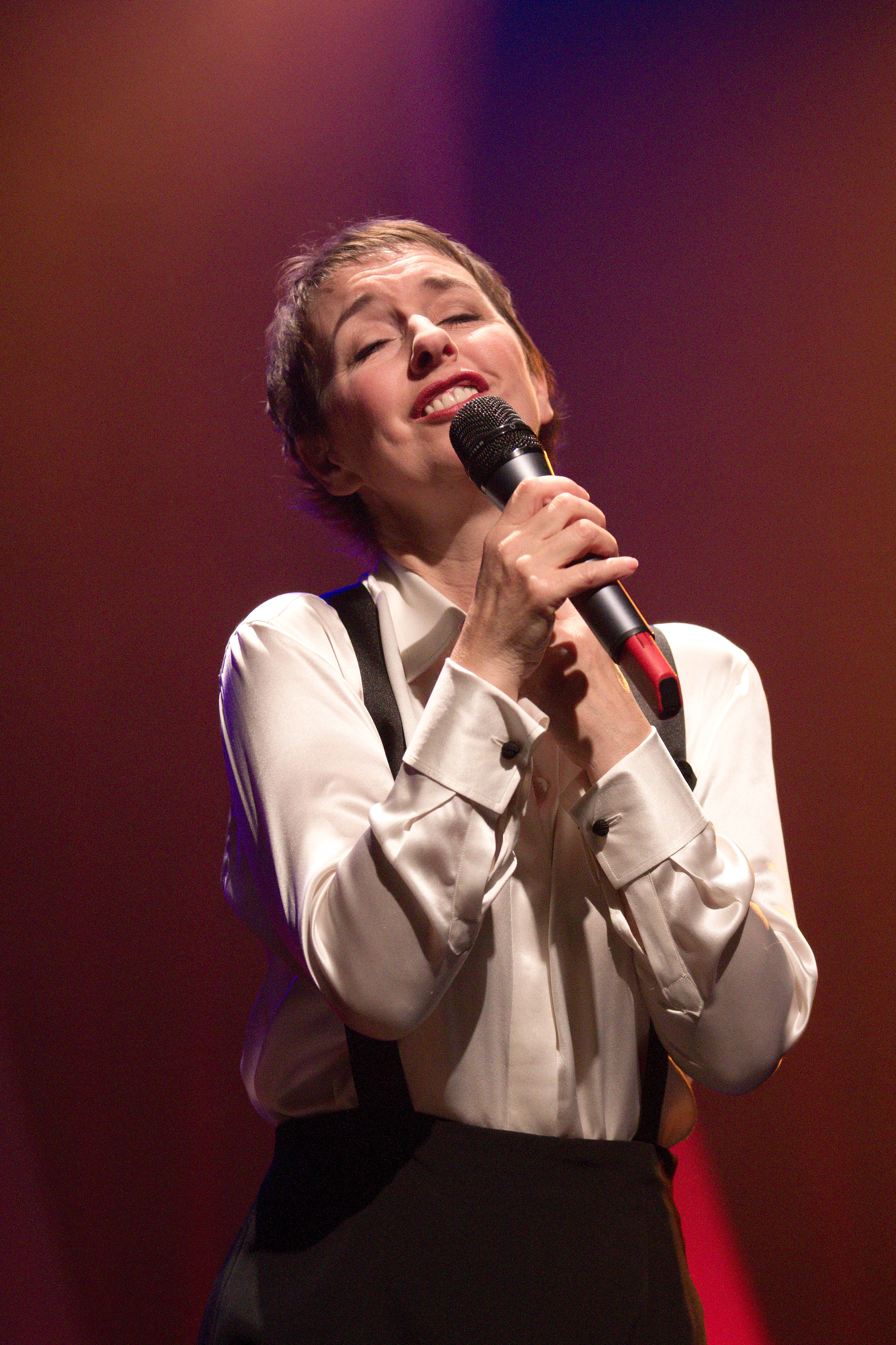 Enzo Enzo live during the French song festival 2010 in Aix-en-Provence (France).